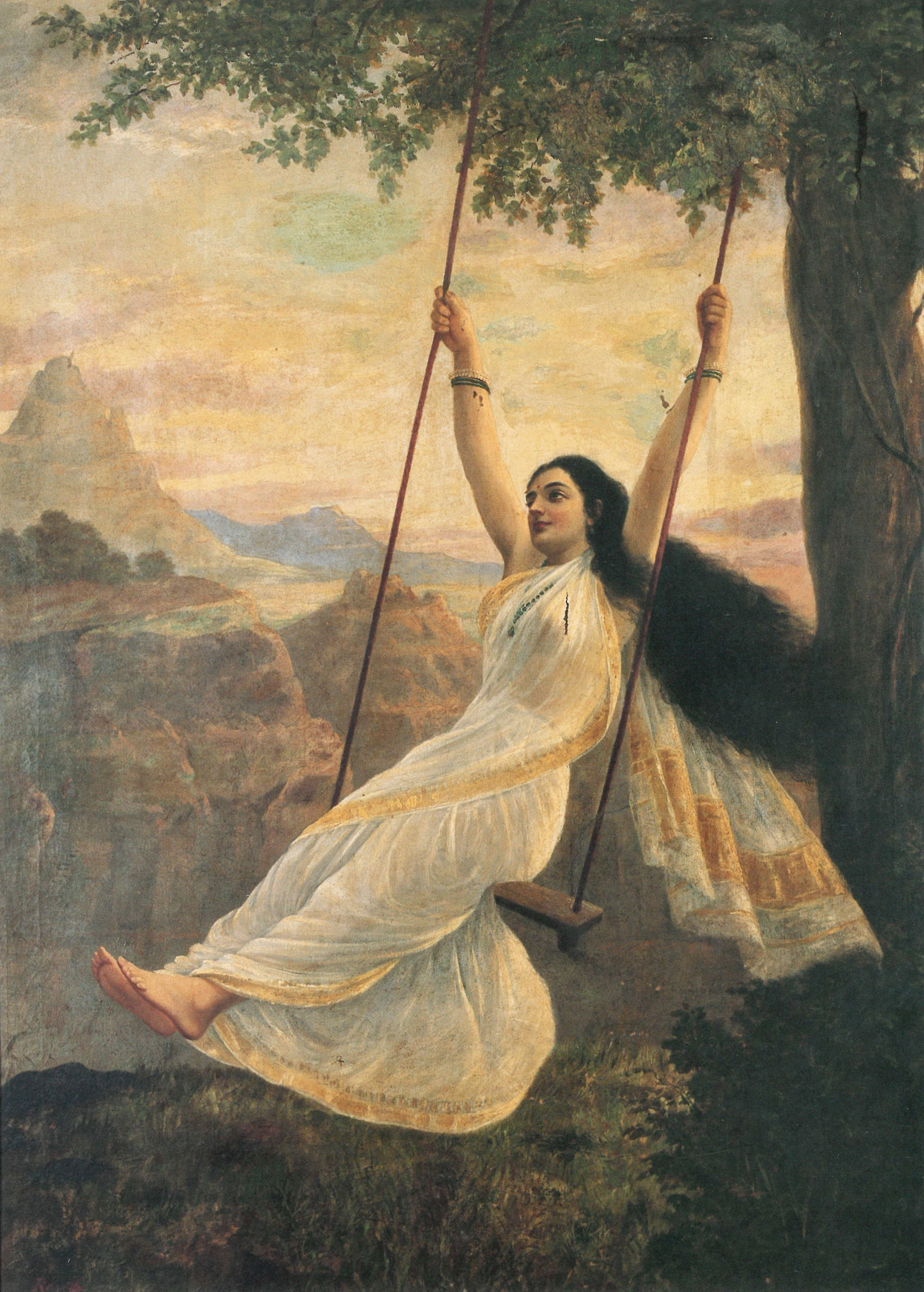 Mohini on a Swing. Notice the sari revealing her torso, suggesting her seductive nature.